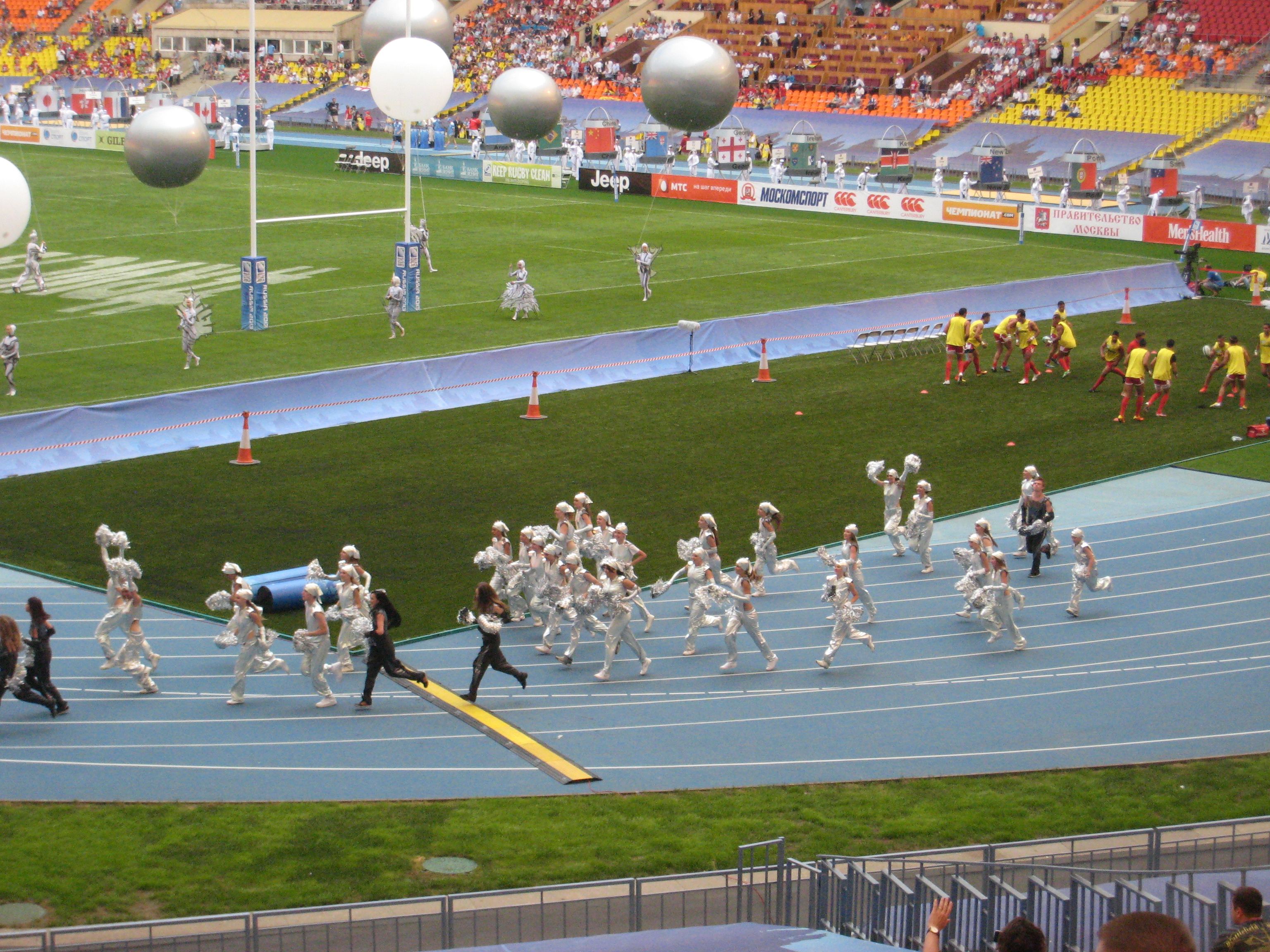 First Day of the 2013 Rugby World Cup Sevens in Moscow